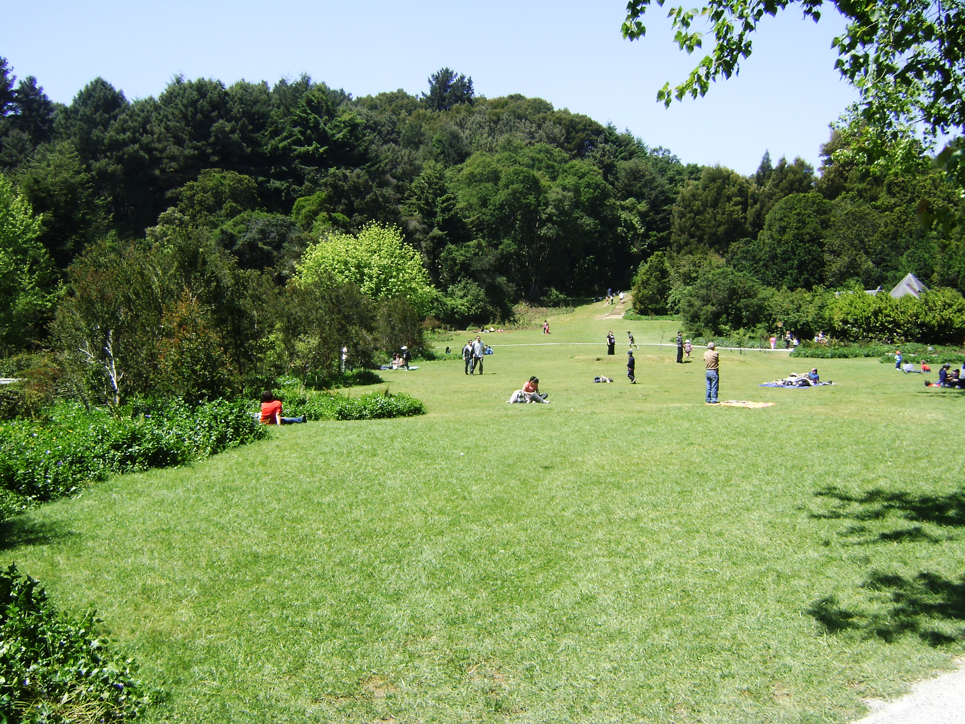 Alessandri Park, Coronel, Chile